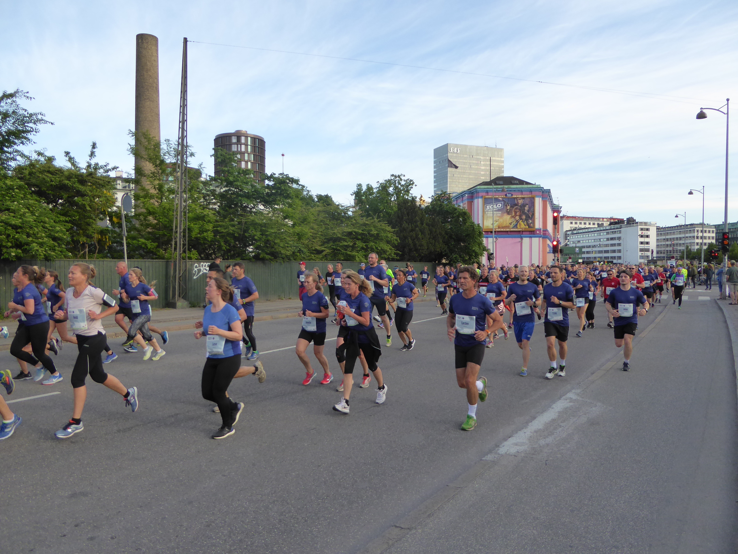 The 50 years birthday of Crown prins Frederik of Denmark were celebrated with runs in five Danish cities. The pictures shows a 10 km run on Hammerichsgade in Copenhagen.